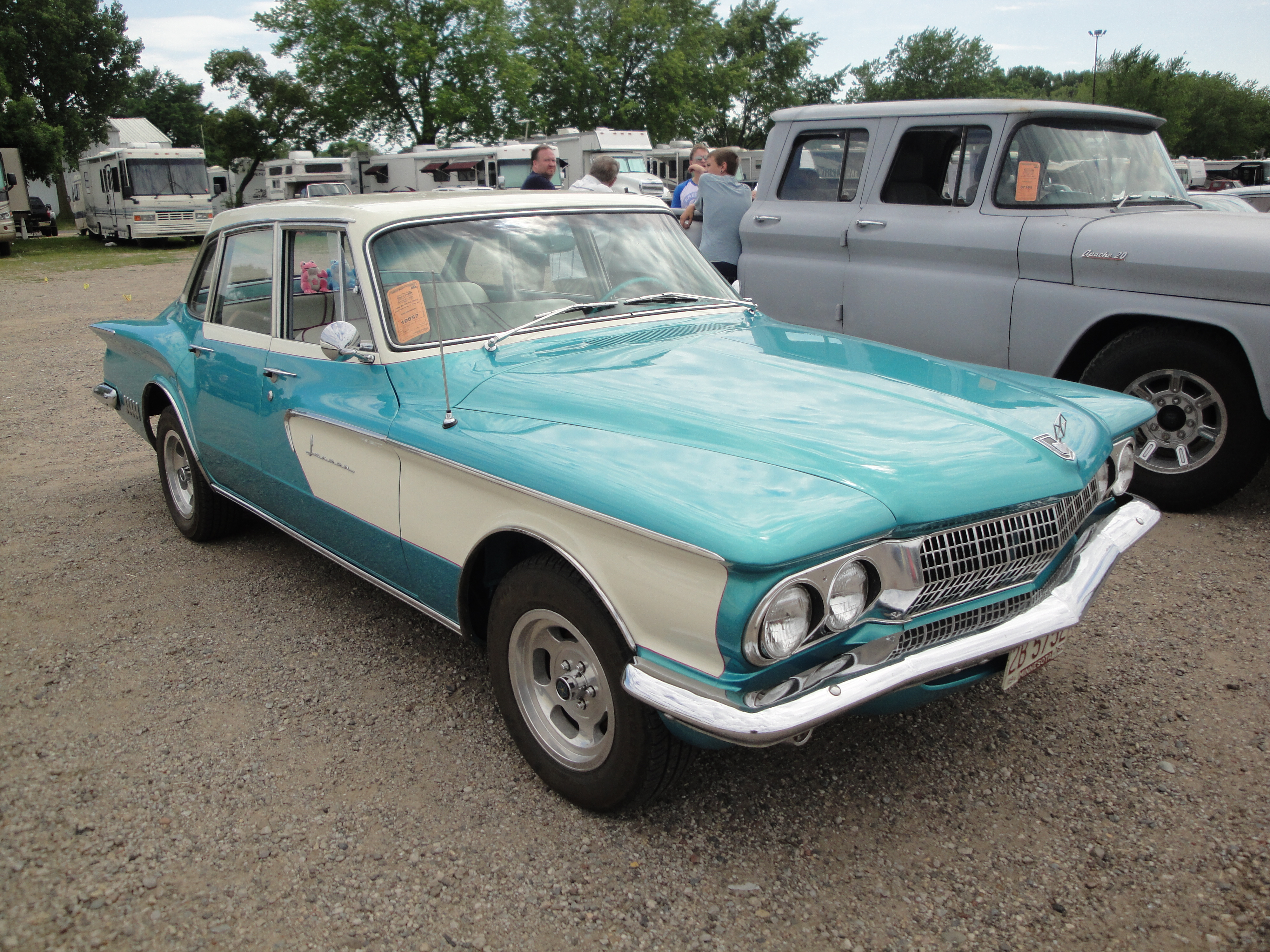 Minnesota Street Rod Association 39th Annual "Back to the Fifties" June 2012 Minnesota State Fairgrounds St. Paul MN